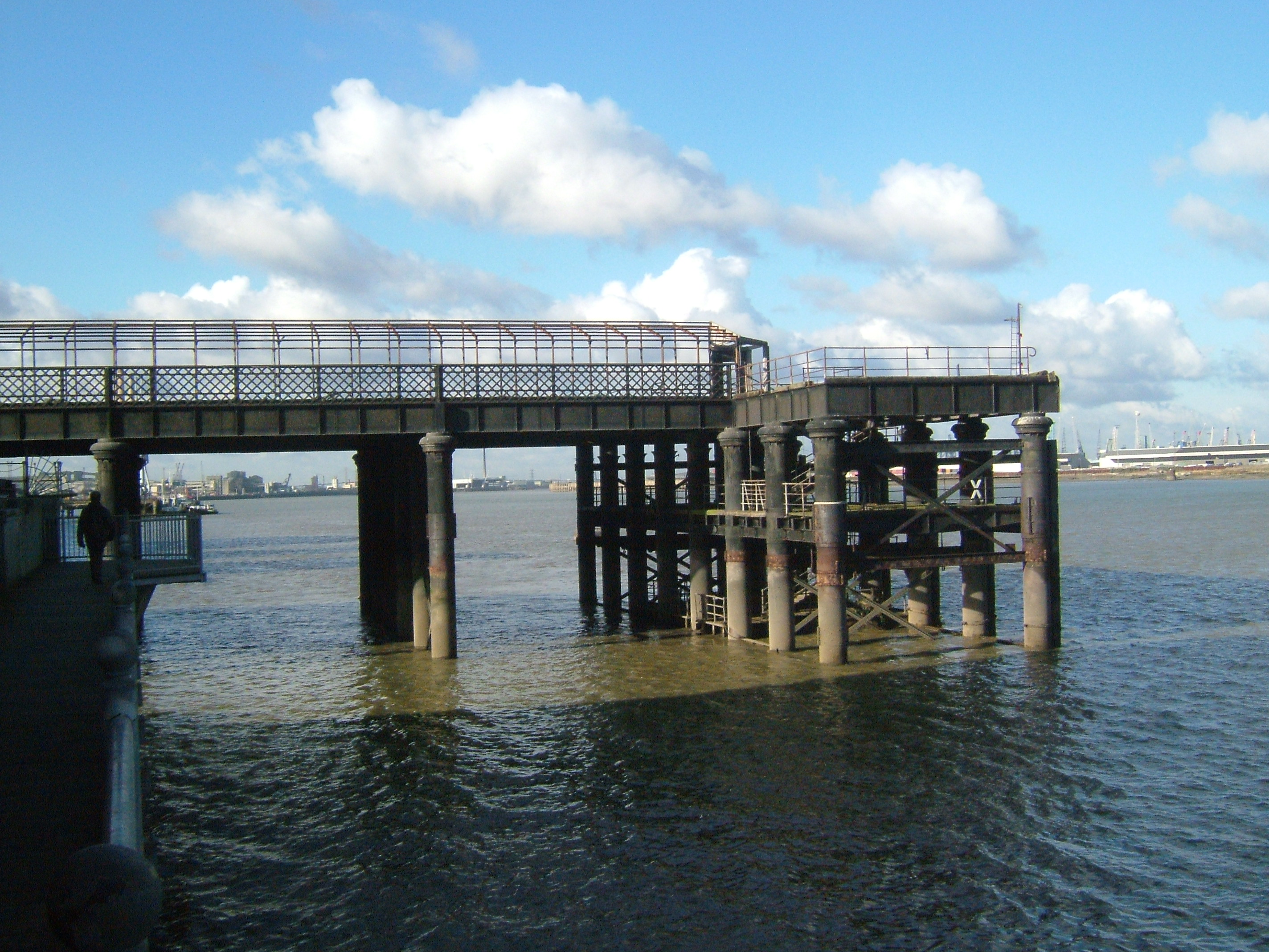 Gravesend is in North Kent, England on the River Thames. Gravesend West Street Pier, at the end of the 1881-formed ‘’Gravesend Railway’’, a LC&DR-instigated company. A steamer service, ran from here to Rotterdam between 1916 and 1939. - OpenStreetMap (Info)